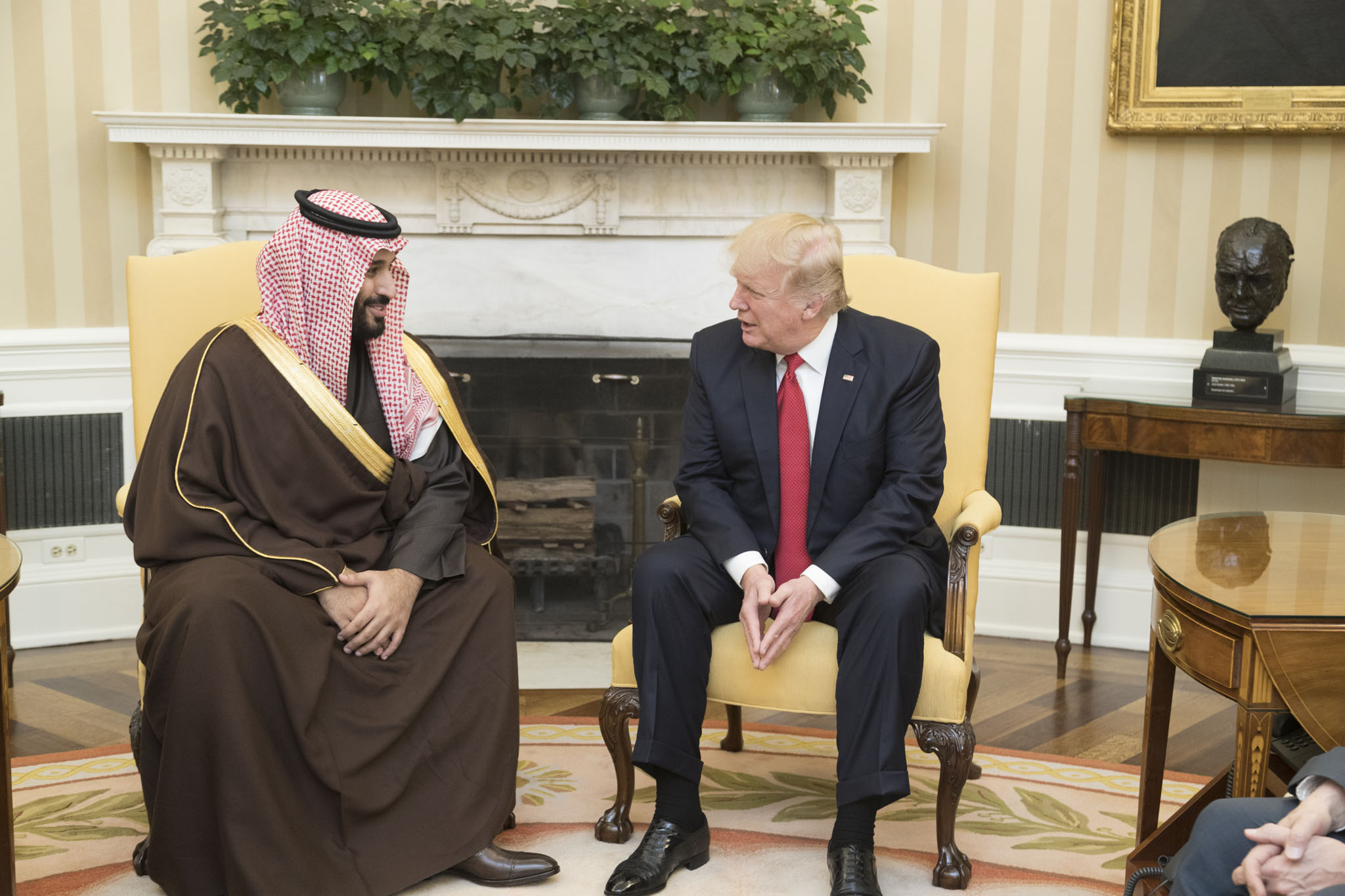 President Donald Trump speaks with Mohammed bin Salman bin Abdulaziz Al Saud, Deputy Crown Prince of Saudi Arabia, during their meeting Tuesday, March 14, 2017, in the Oval Office of the White House in Washington, D.C. (Official White House Photo by Shealah Craighead)